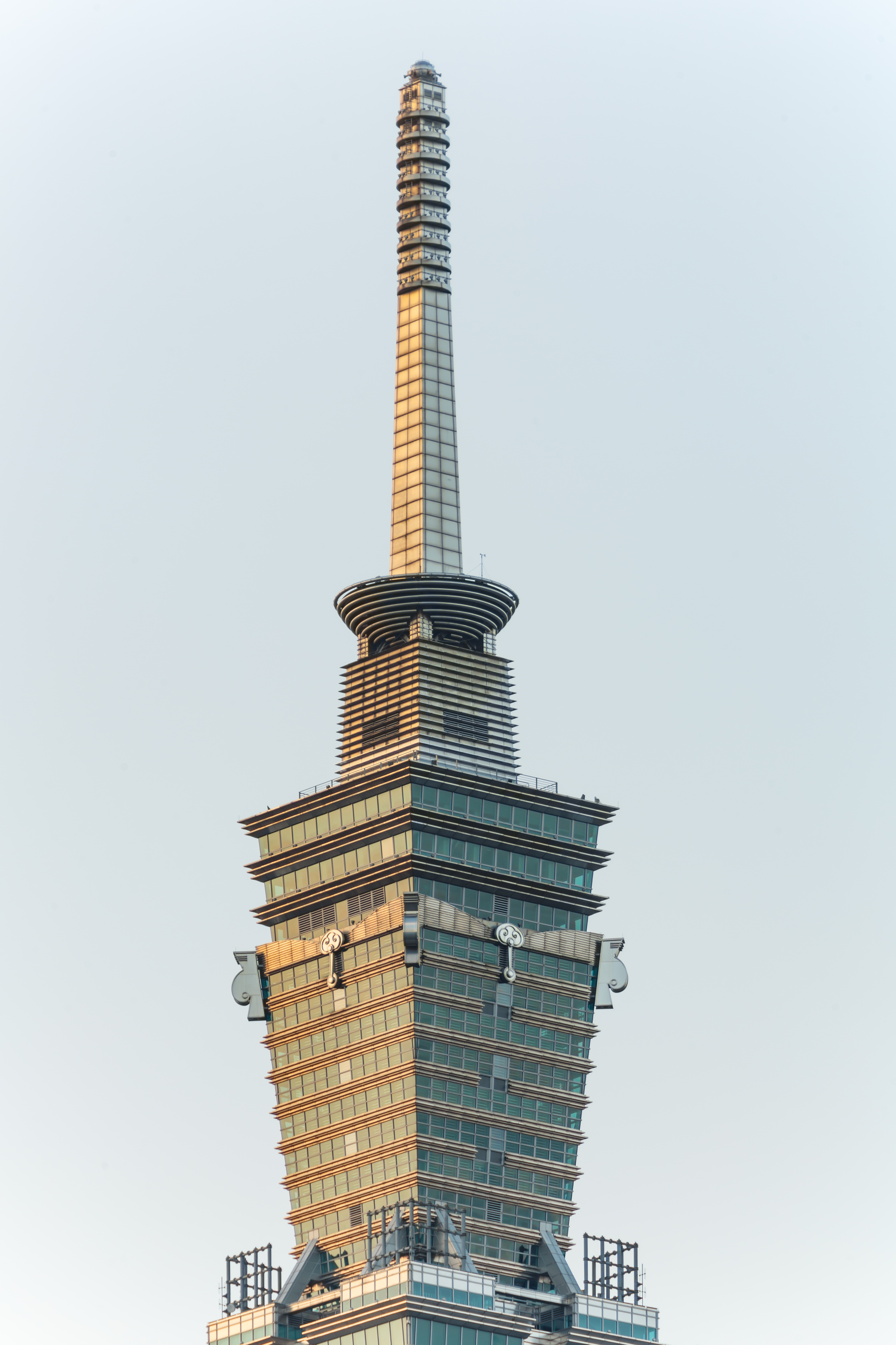 Taipei, Taiwan: Close-up of Taipei 101 spire